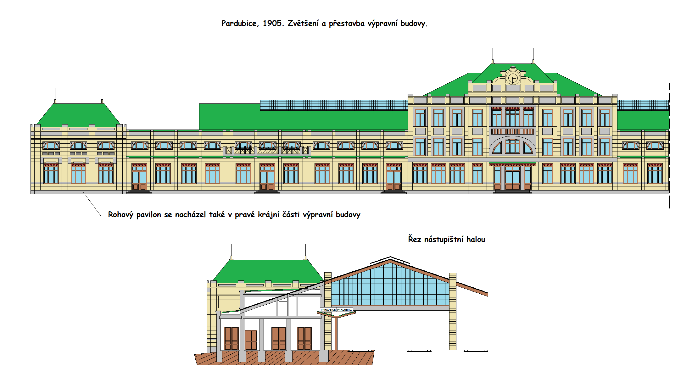 The nonexistent railway station in Pardubice. Built in 1905-1907. Was found at the same place, what the present station Pardubice hlavní nádraží.